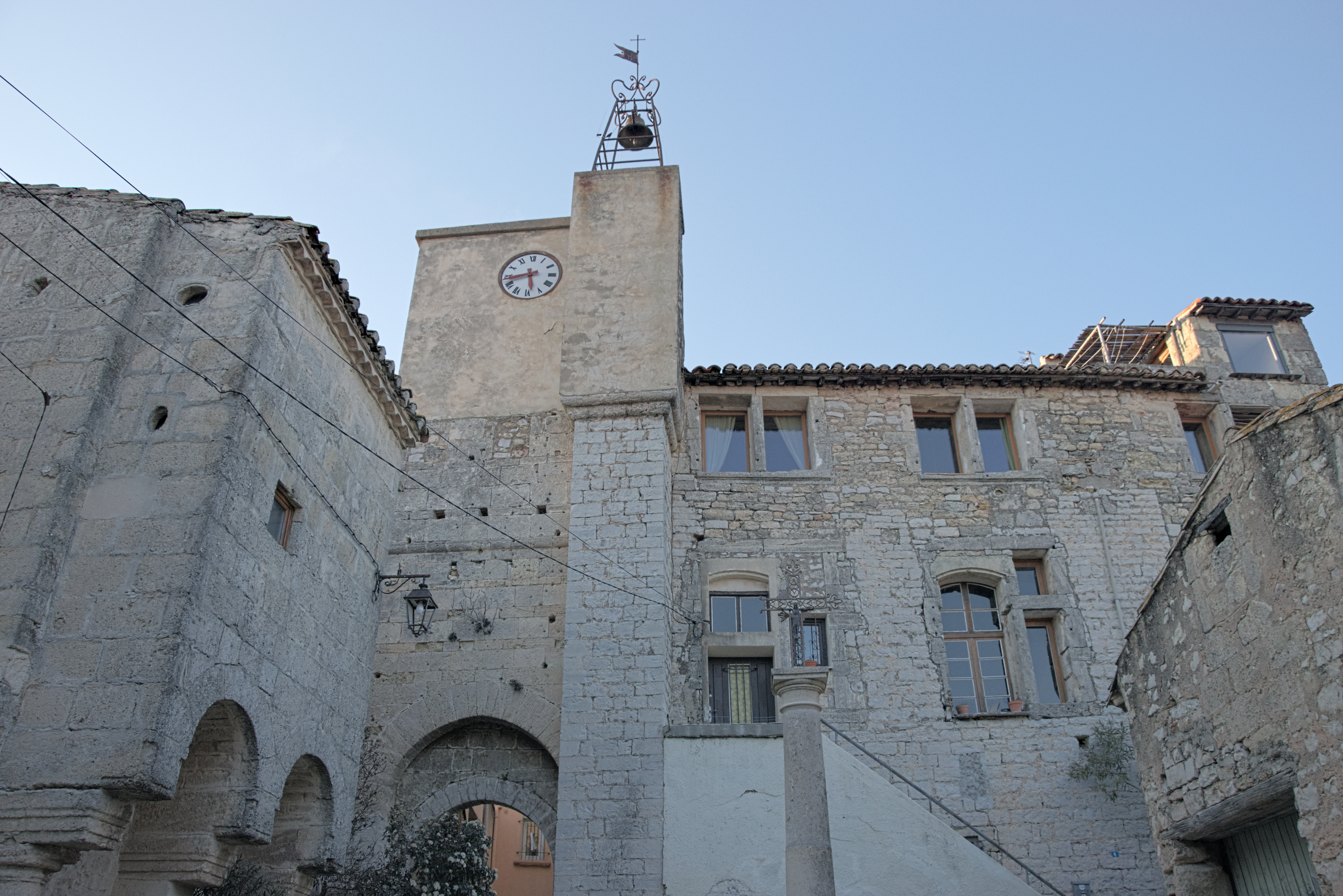 Castle of Cournonsec in the Hérault department. Built in the Middle Ages.